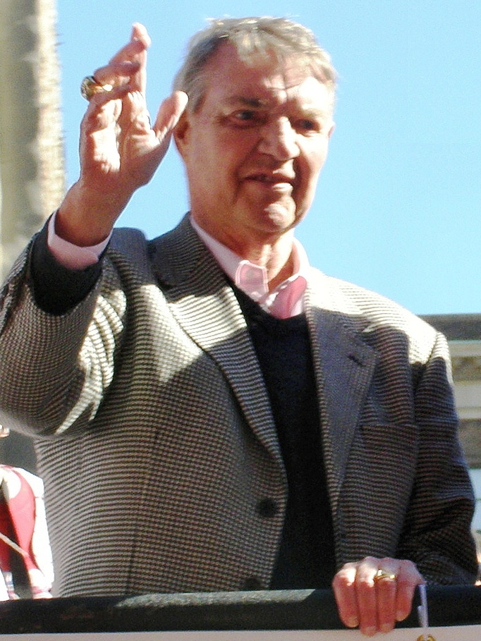 Harry Kalas on a float at the 2008 Phillies World Championship Parade.